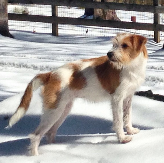 Kromfohrlander standing in snow, North Carolina, USA.